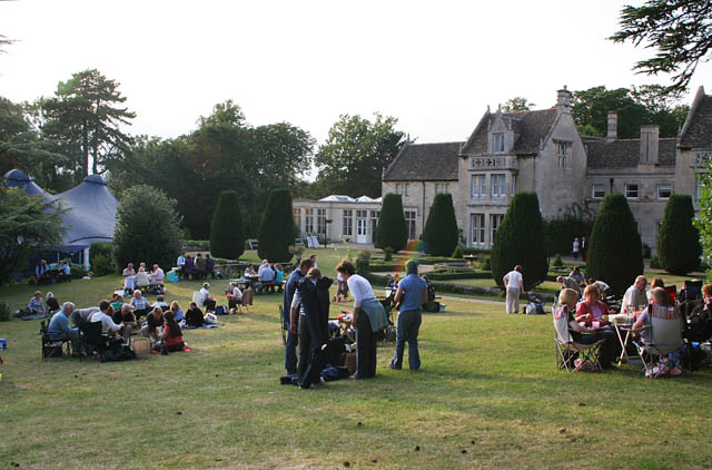 Tolethorpe Hall near Stamford. Pre-performance picnics at the home of the Stamford Shakespeare Company. This company, made up of amateurs, was founded in Stamford in 1968 and moved to Tolethorpe Hall in 1977. The theatre is open air in a natural amphitheatre with a permanent canopy, (the blue structure on the left), covering the auditorium. for lots of information including a detailed history of the company.